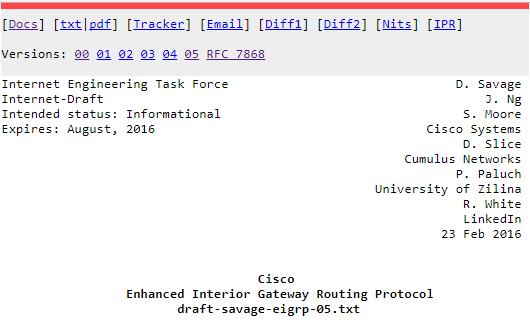 A screenshot of a part of the first page of fifth EIGRP Drat.